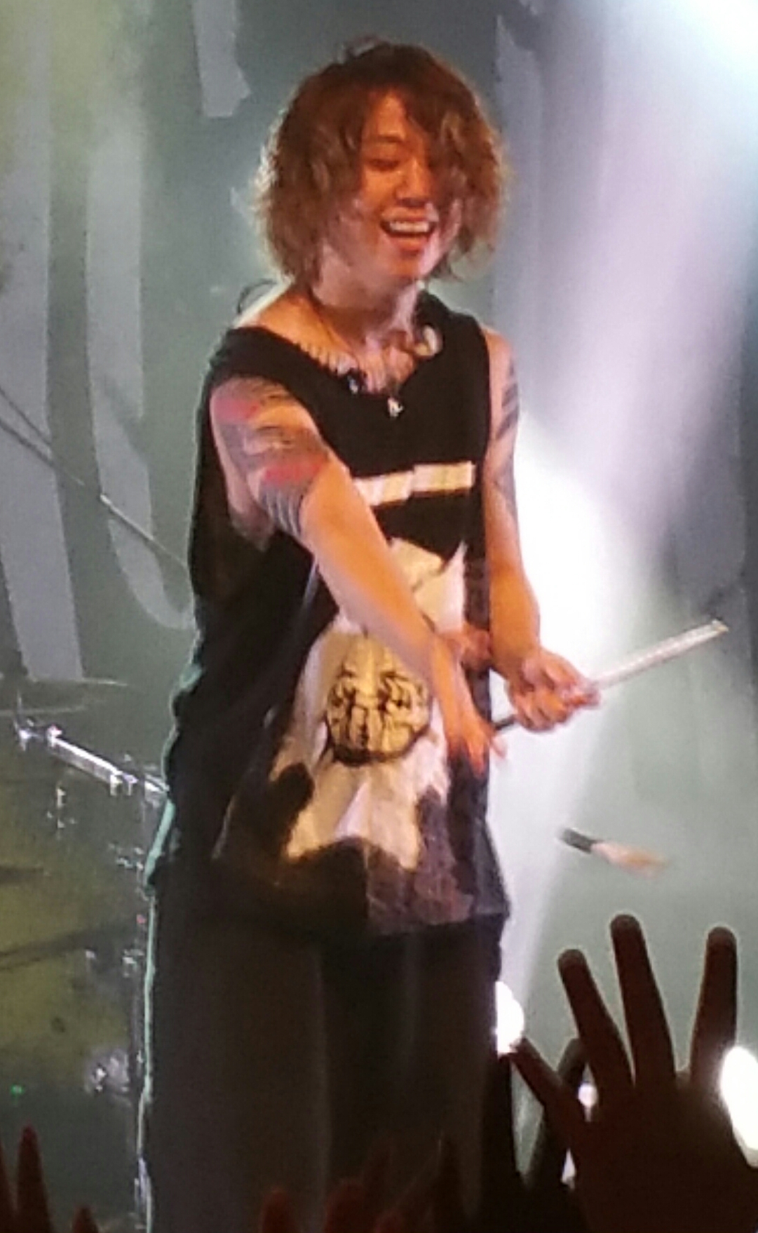 One Ok Rock drummer Tomoya Kanki, closing of show, Ambitions Tour 2017, Playstation Theater, New York City, Day 2.